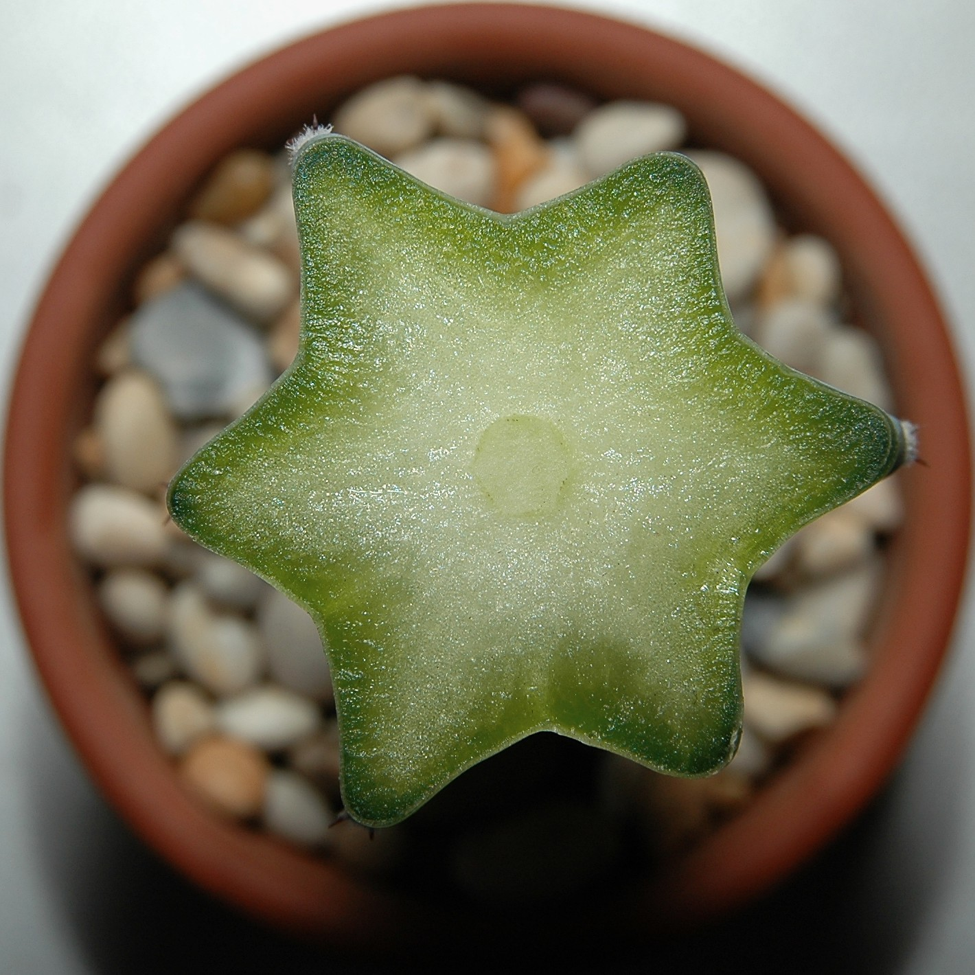 Myrtillocactus geometrizans after striking. The wound is fresh.